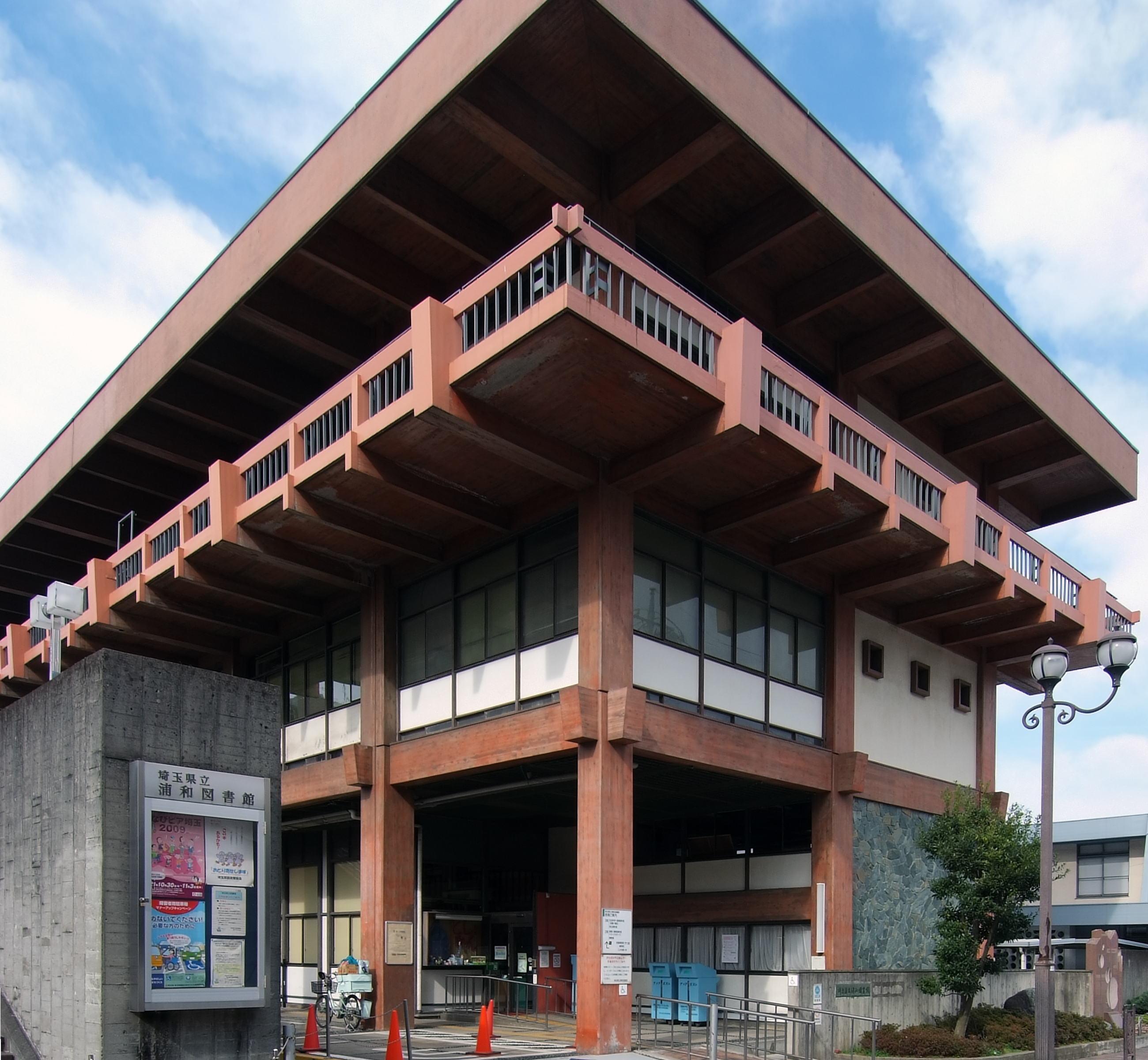 Saitama Prefectural Urawa Library, at Urawa-ku Saitama Japan, built in 1960.